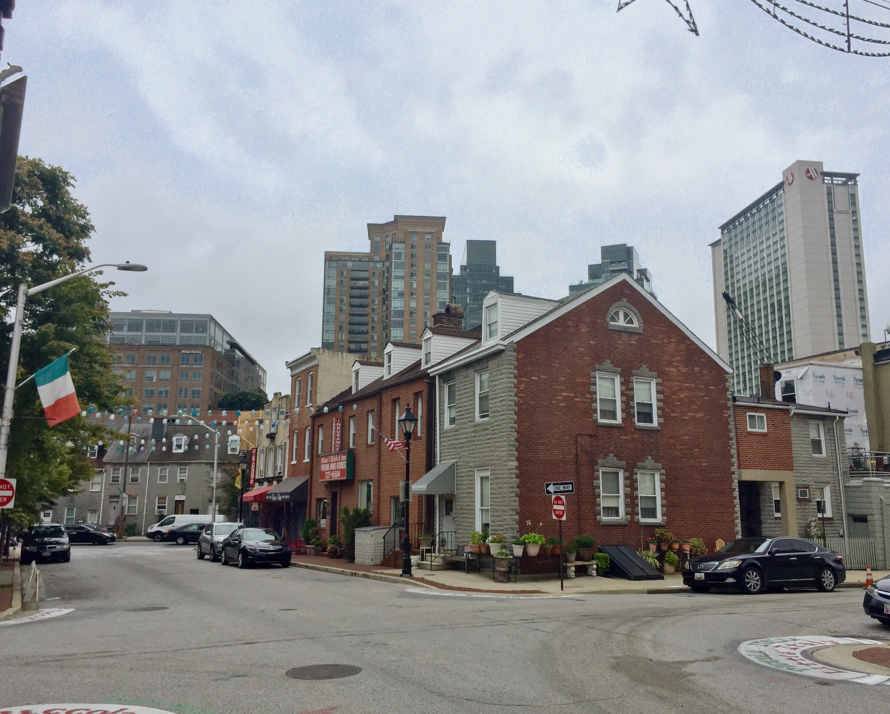 A view of Little Italy in Baltimore from High Street